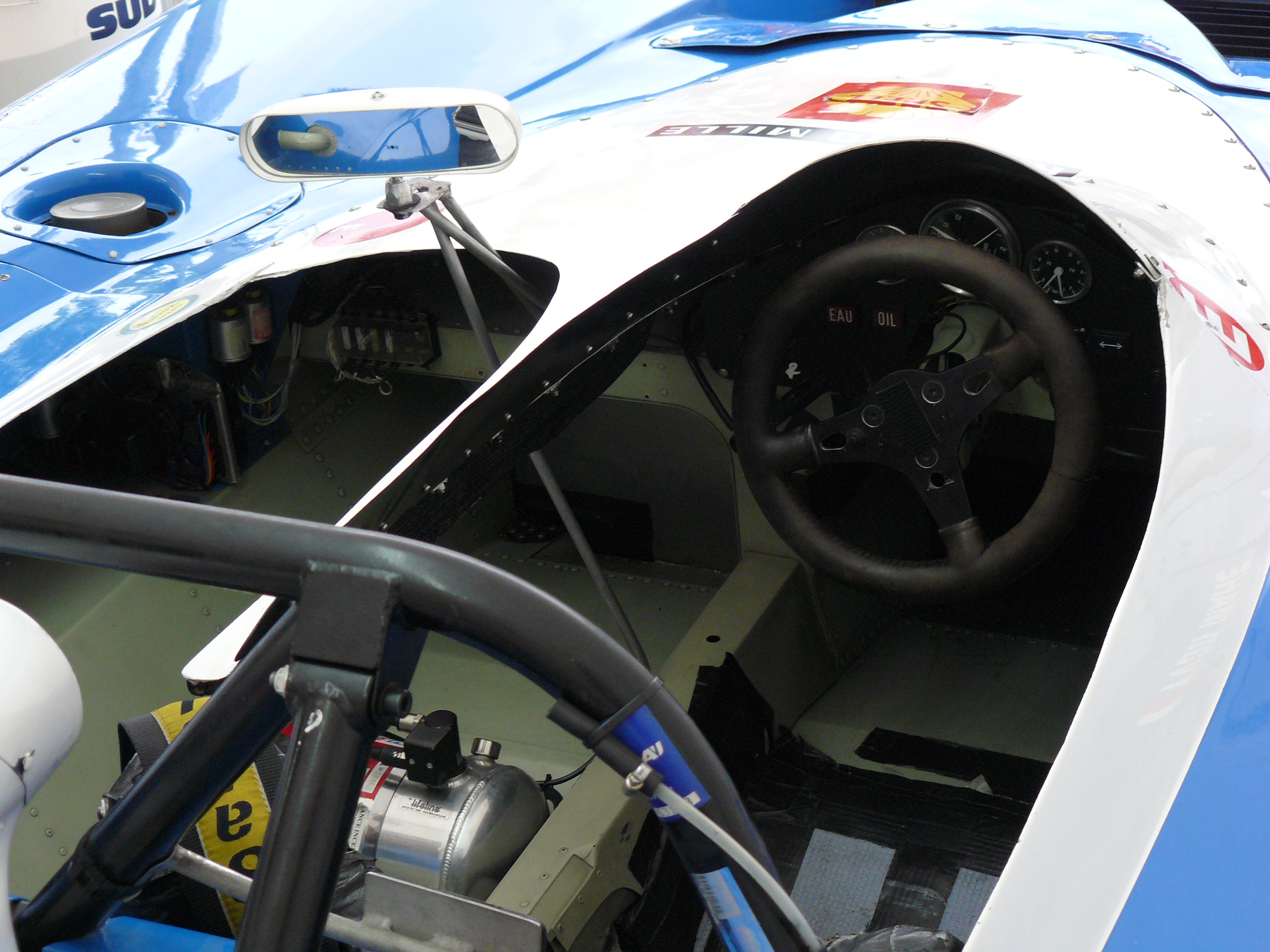 cockpit of Matra M670